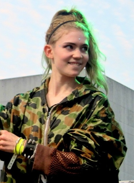 Grimes at SxSW 2012